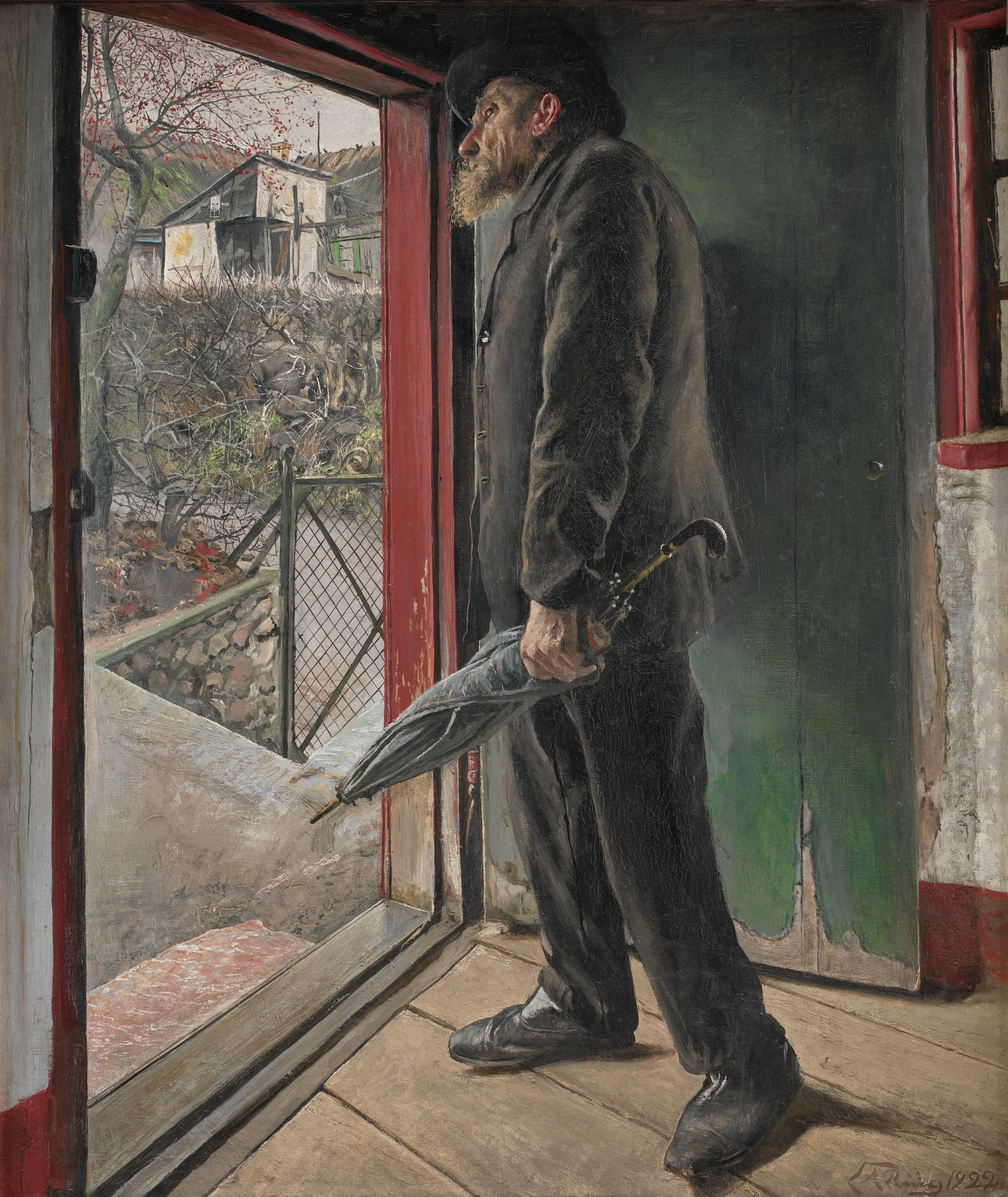 L.A. Ring (1854-1933), Er regnen hoert op?, 1922